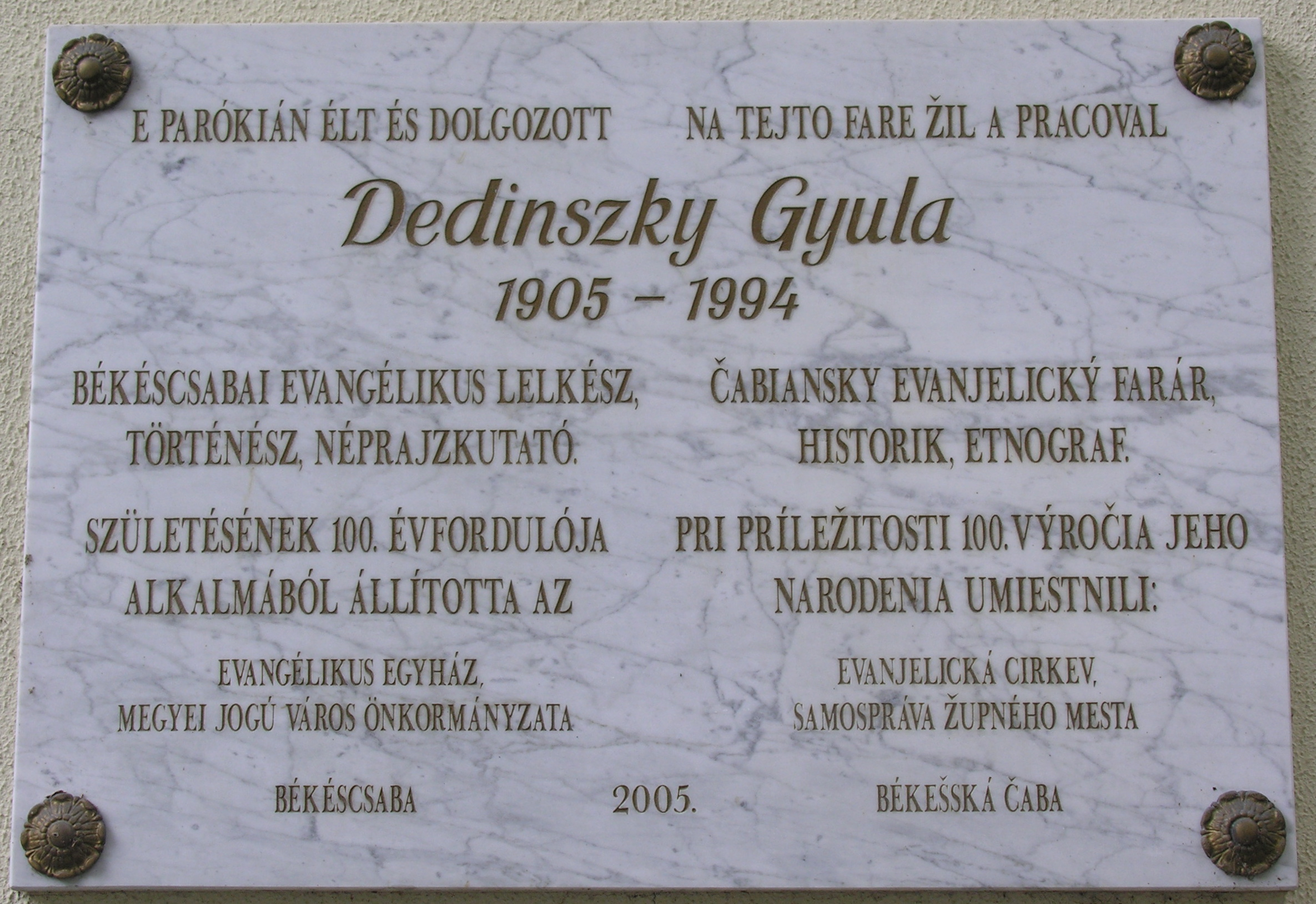 Plaque to Gyula Dedinszky in Békéscsaba (Szent István tér 20.)